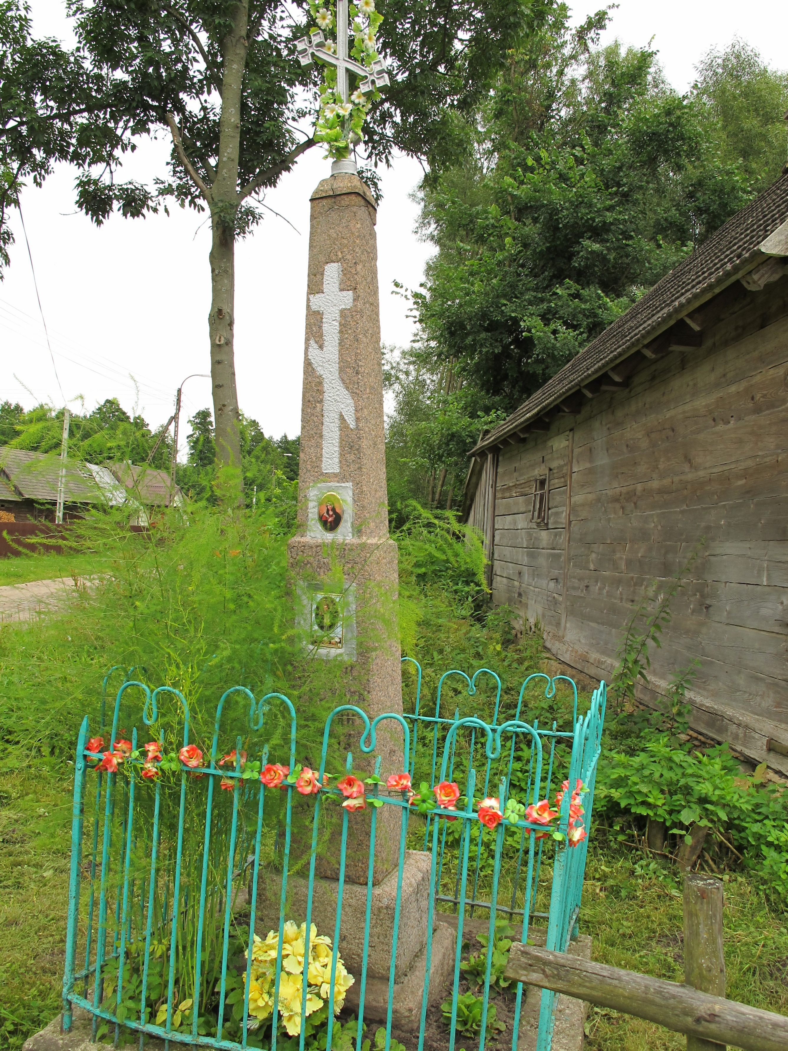 Cross in the Aleksicze village, gmina Zabłudów, podlaskie, Poland